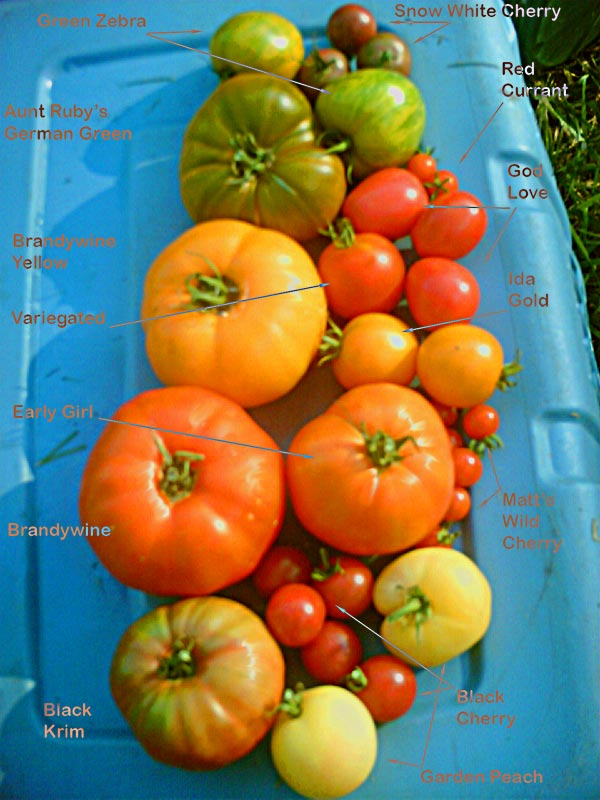 A variety of specific cultivars, including Brandywine (biggest red), Black Krim (lower left) and Green Zebra (top right). Complete list, clockwise from top right: Snow White Cherry Red Currant God Love Ida Gold Matt's Wild Cherry Black Cherry Garden Peach Black Krim Brandywine (red) Early Girl Variegated Brandywine Yellow Aunt Ruby's German Green Green Zebra